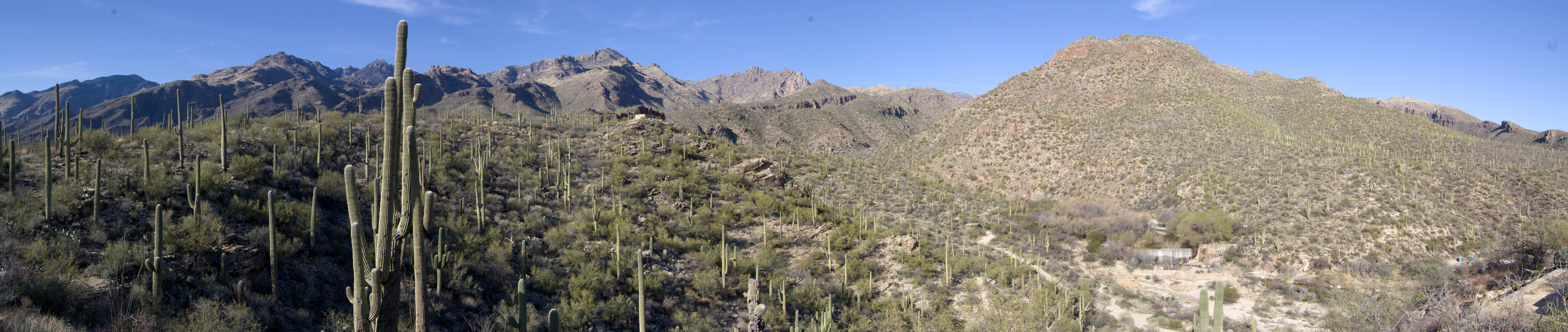 Looking toward Sabino Canyon, Arizona, on February 14, 2009